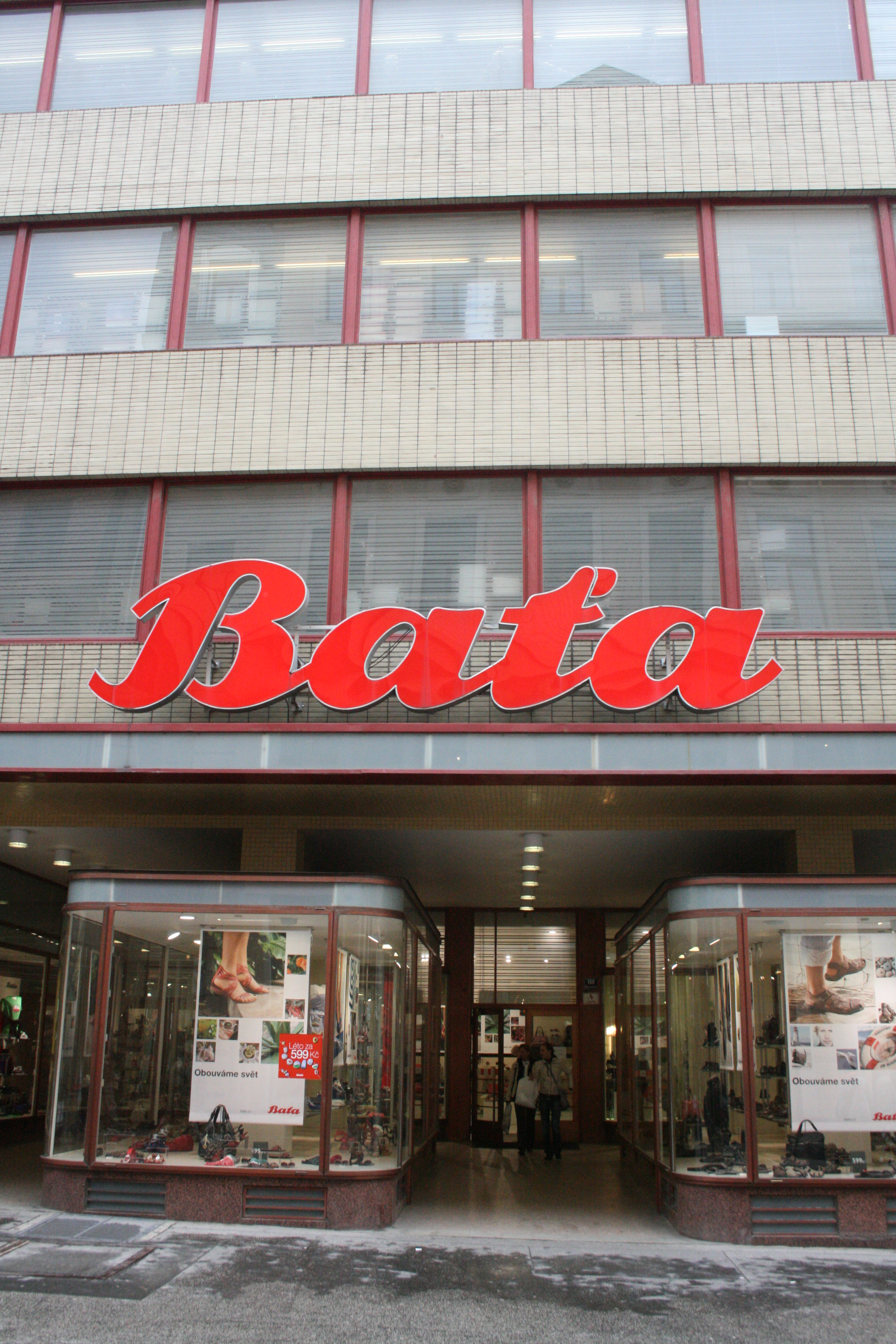 Bata store at Česká street in Brno, Czech Republic.